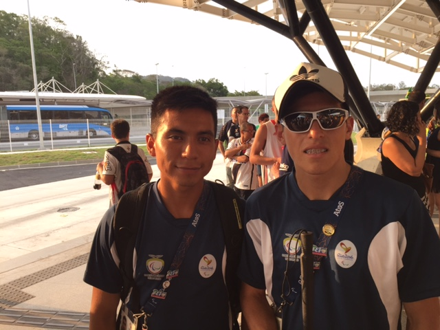 Darwin Castro (right) and Sebastian Rosero (left)